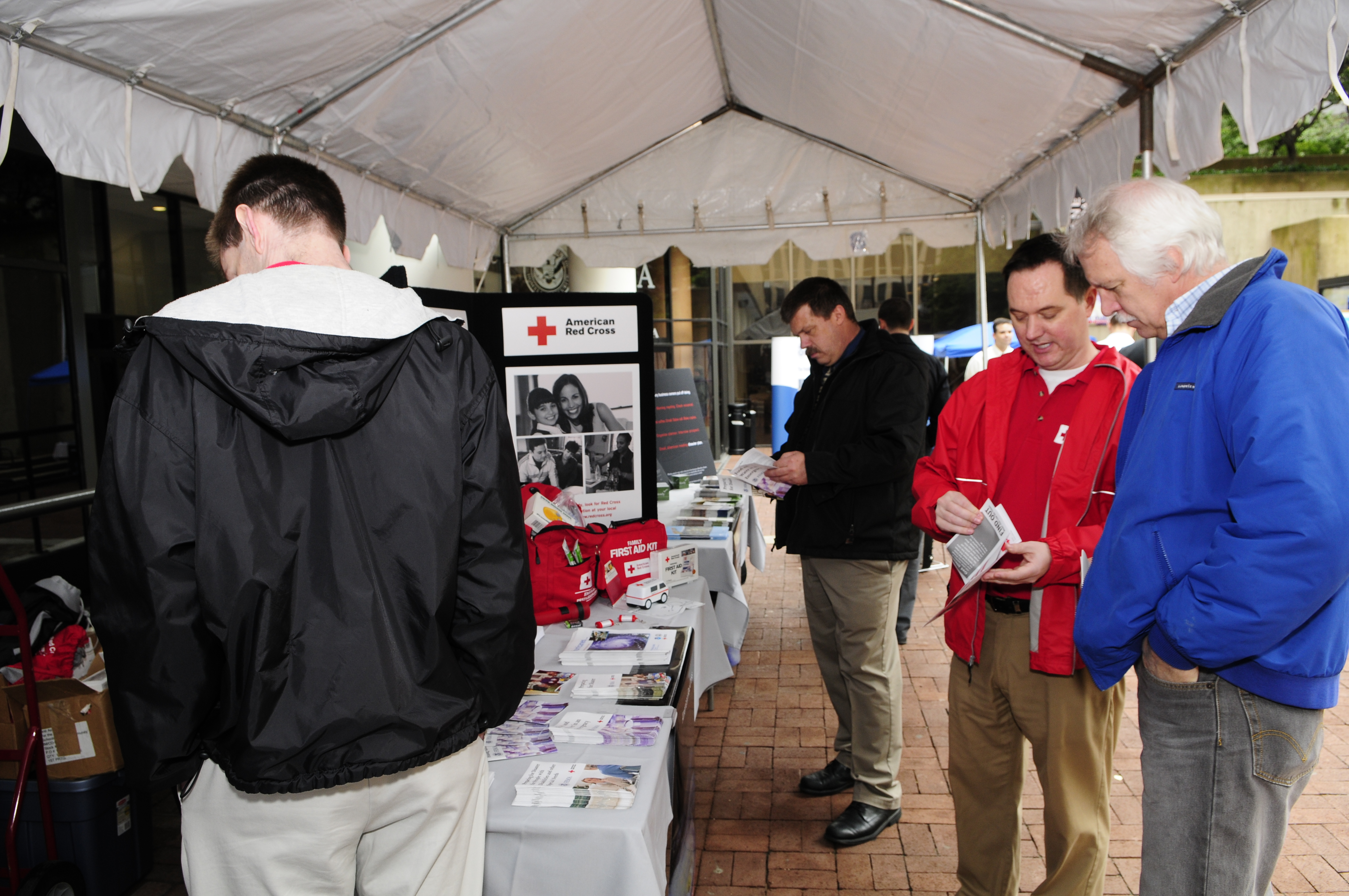 Washington,DC, May20,2008 -- An American Red Cross volunteer explains their program to people visiting their display during FEMA's Hurricane Awareness Day. This special event was hosted at FEMA Headquarters, in the District of Columbia. Barry Bahler/FEMA